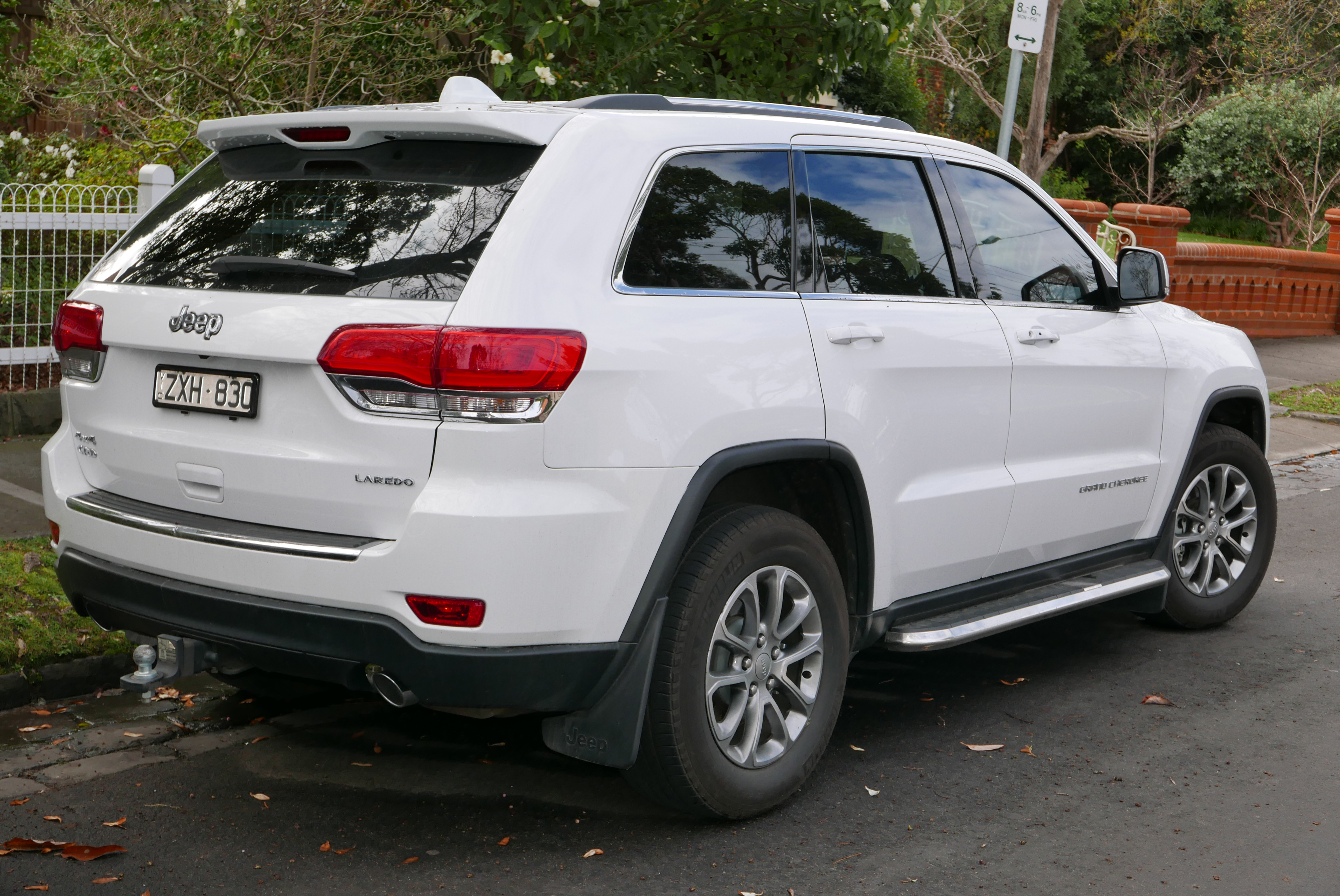 2013 Jeep Grand Cherokee (WK2 MY14) Laredo CRD 4WD wagon. Photographed in Hawthorn, Victoria, Australia. Vehicle registration enquiry results Jurisdiction Victoria Registration ZXH830 Chassis code 1C4RJFEM6EC165656 Engine code EC165656 Compliance date 2013-07 Year of manufacture 2013